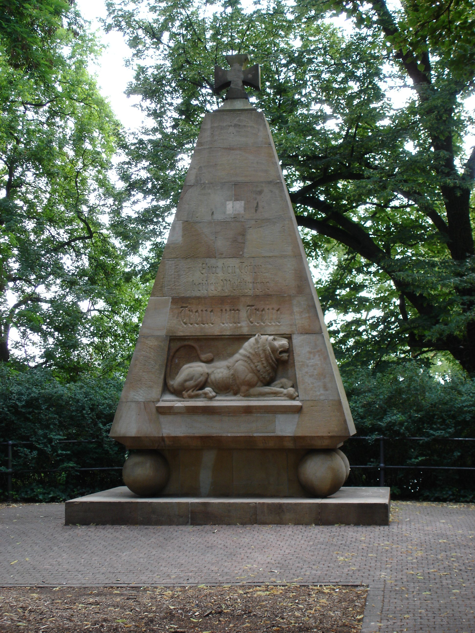 Memorial for the people killed in the two world wars on the promenade in Münster, Westphalia, Germany